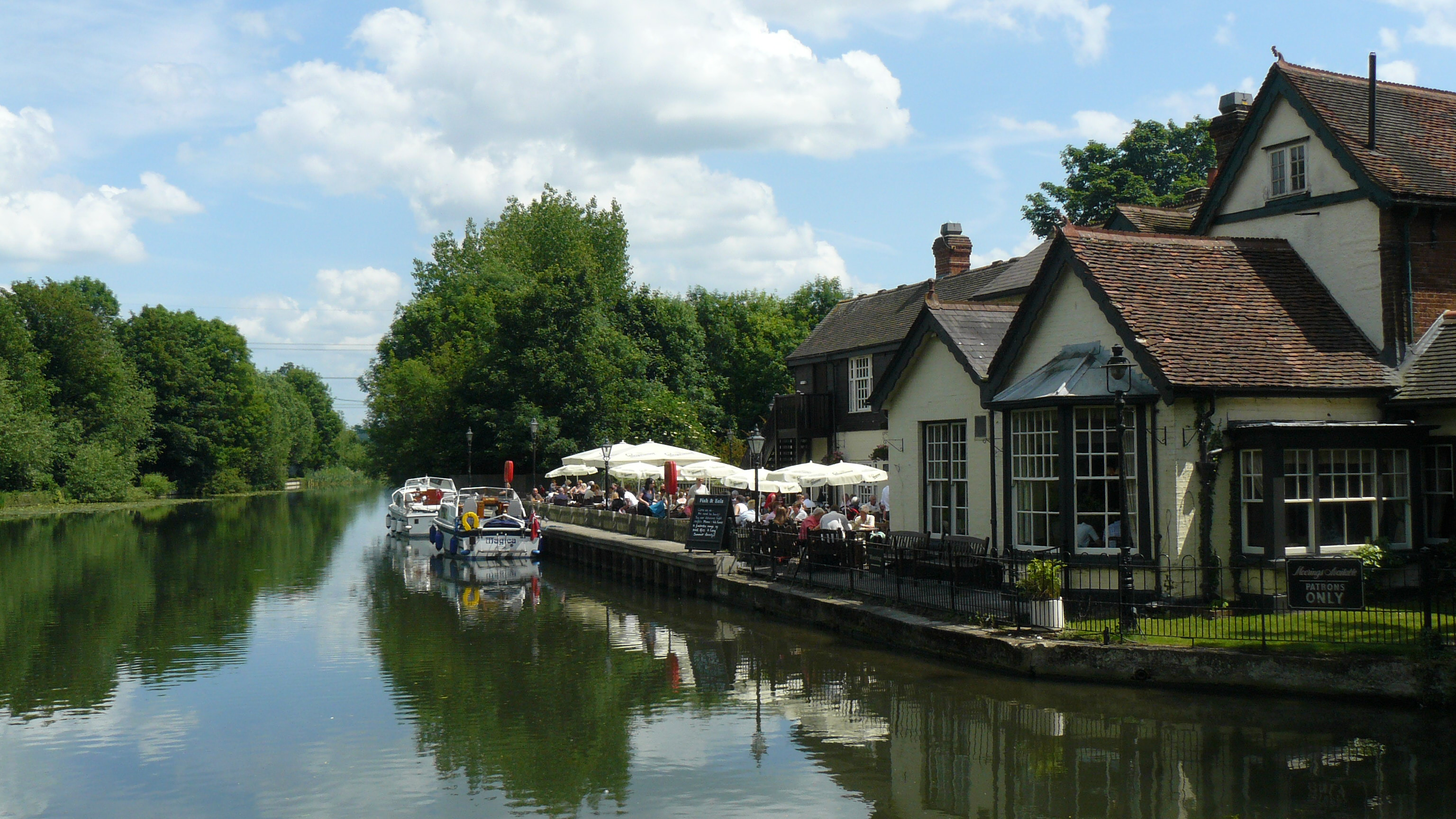 Picture of the Fish and Eels public house at Dobbs Weir Hertfordshire